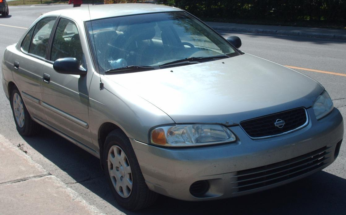 2001 Nissan Sentra photographed in Montreal, Quebec, Canada.